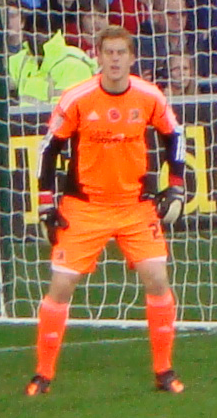 Ben Amos. Image cropped from original at flickr.